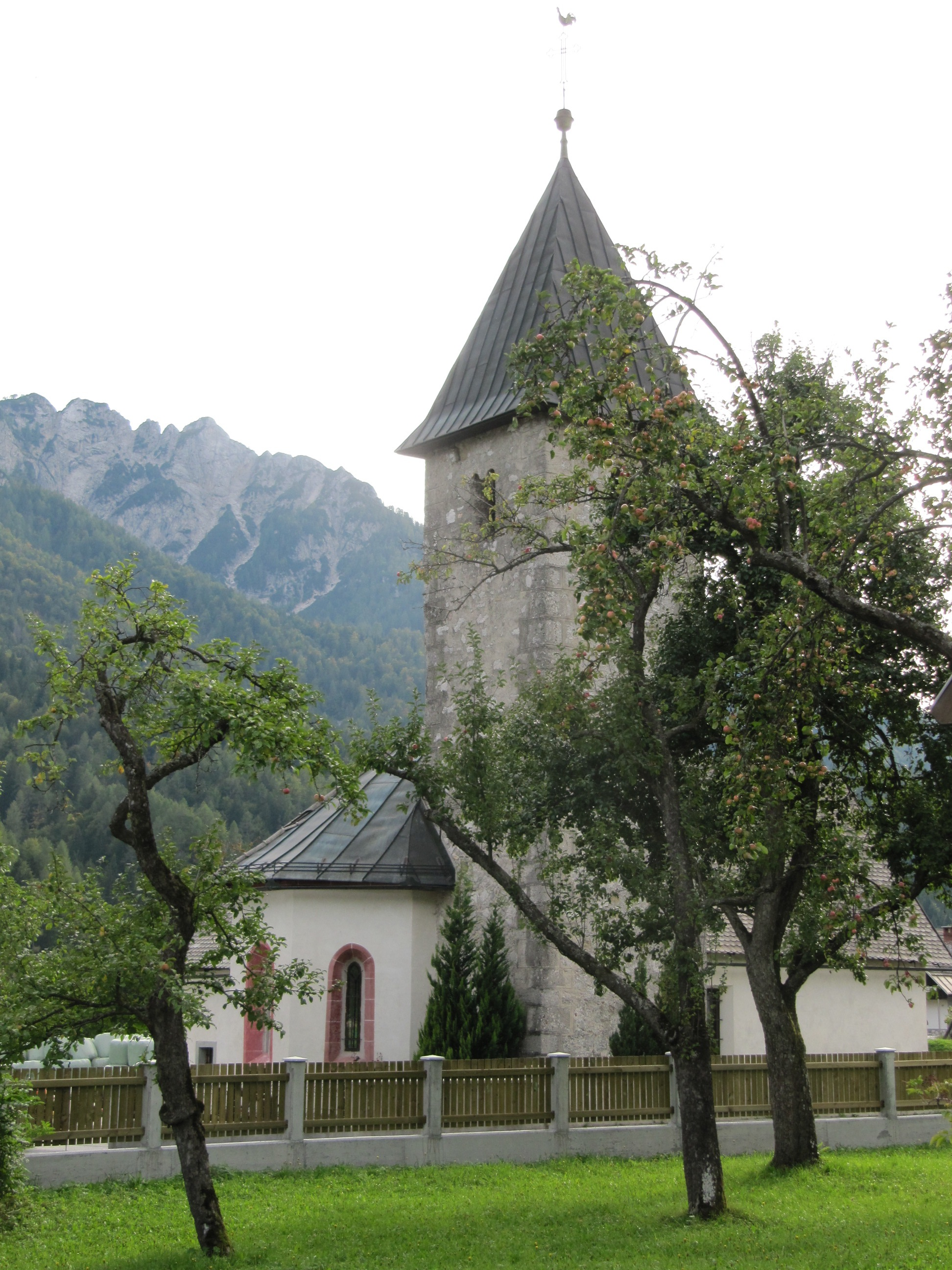 St.Thomas church in Rateče, Slovenia